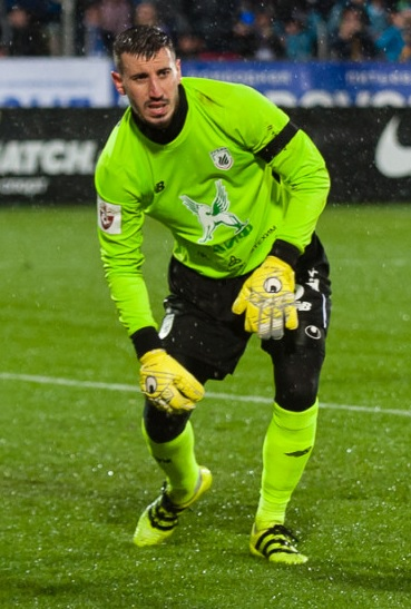 Soslan Dzhanayev with FC Rubin Kazan in a game against FC Rostov.